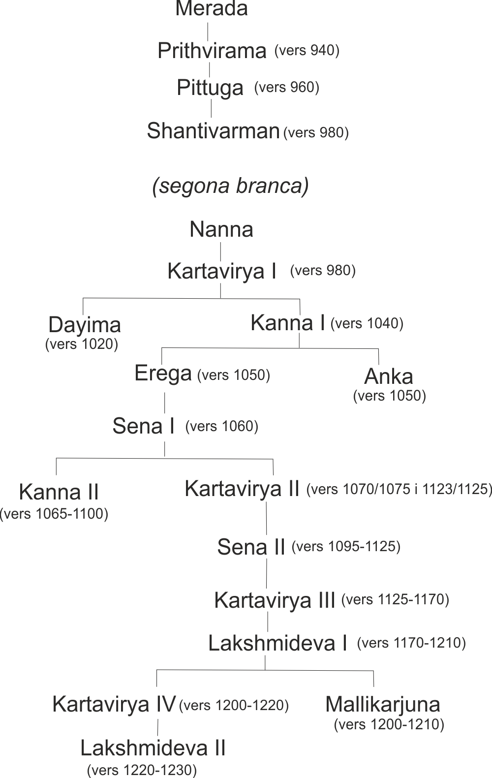 Genealogy of Ratta